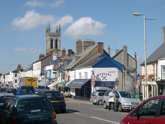 Honiton High Street. Taken on a very busy market day. The road is full of traffic, delivery vans and market stalls.